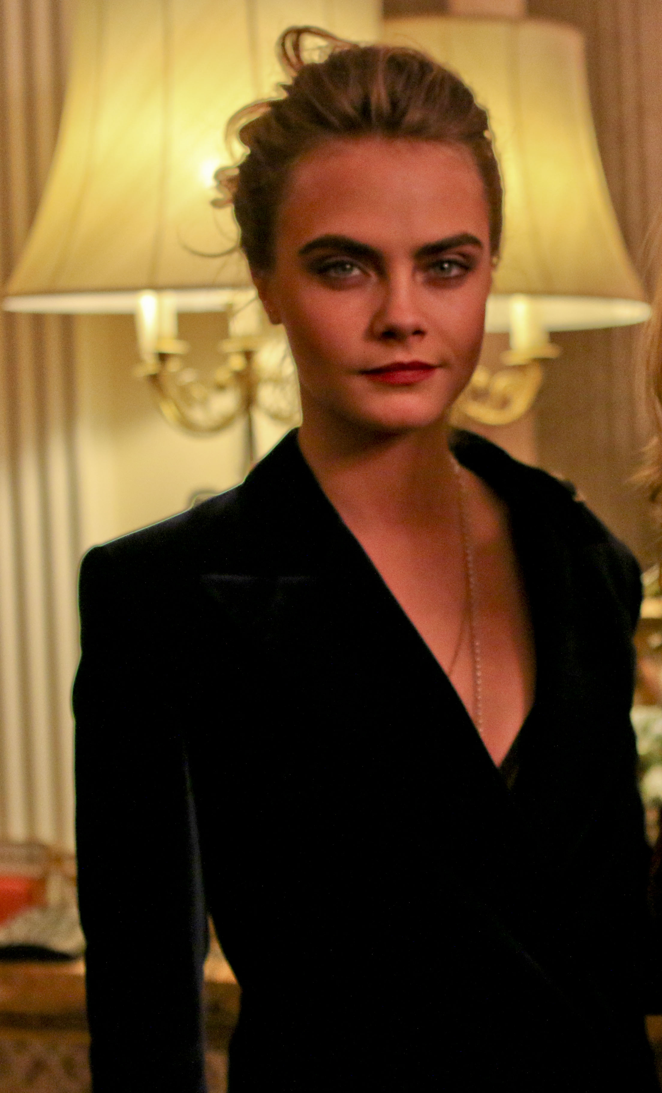 Cara Delevingne at Vogue London Fashion Week reception at Winfield House